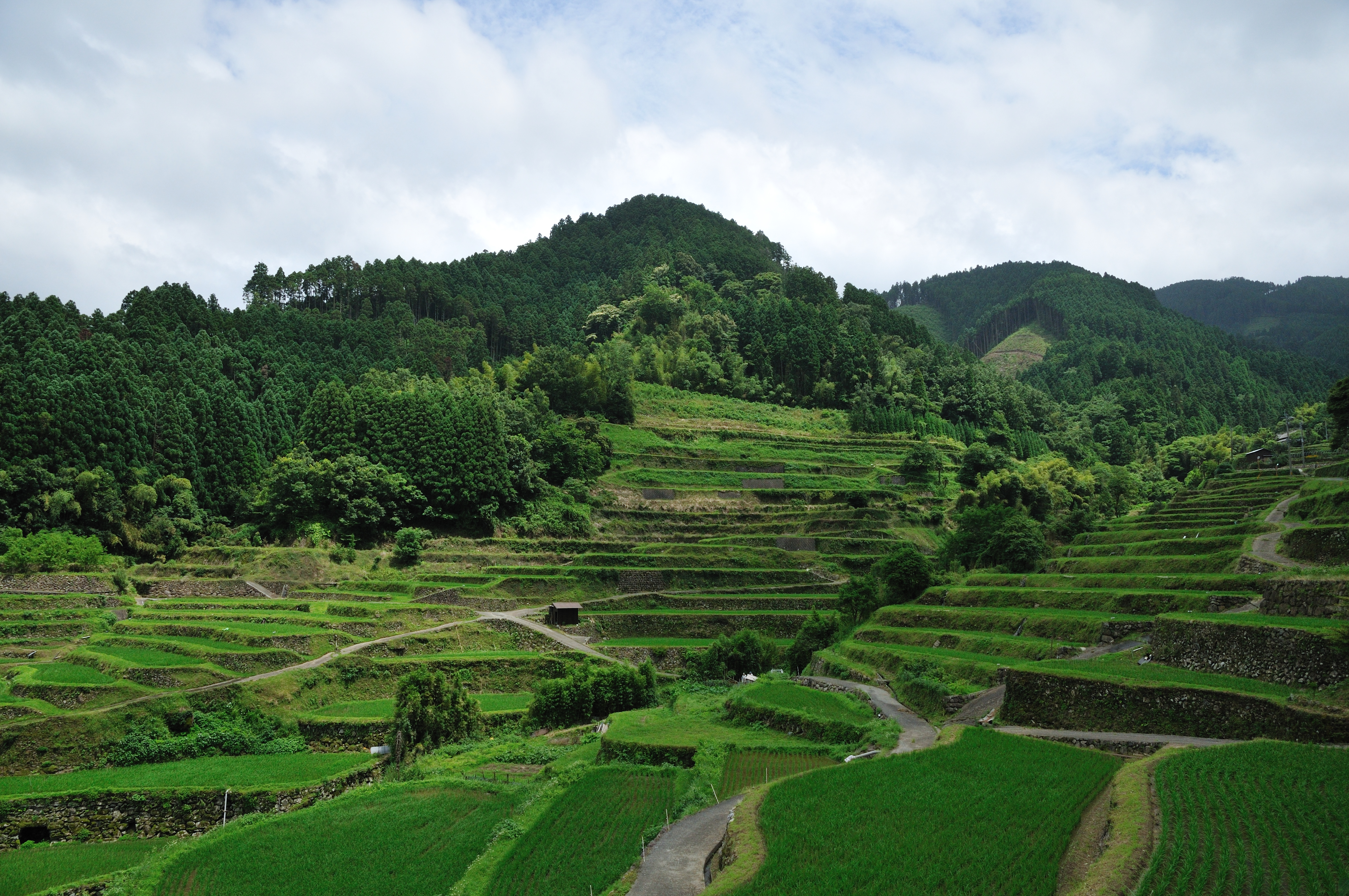 Tsuzura rice terrace in Ukiha, Fukuoka, Japan. Nikon D300 + AF-S DX Nikkor 16-85mm f/3.5-5.6G ED VR